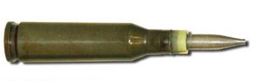 PSP 5.45x39 cartridge.